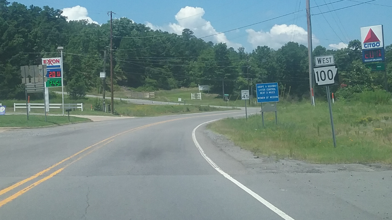 Highway 100 at the intersection of Interstate 40 in Crystal Hill.